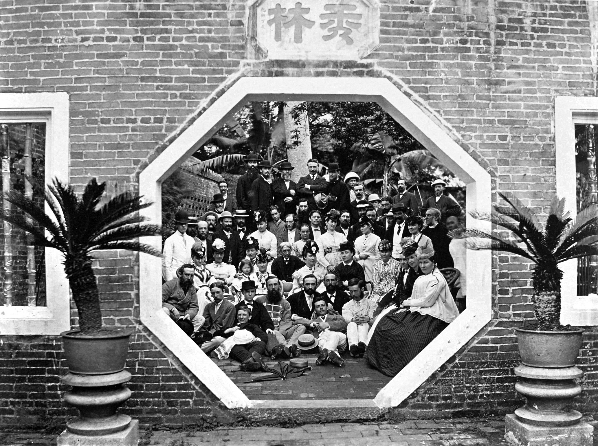 Photograph in From Afong, Photographer.